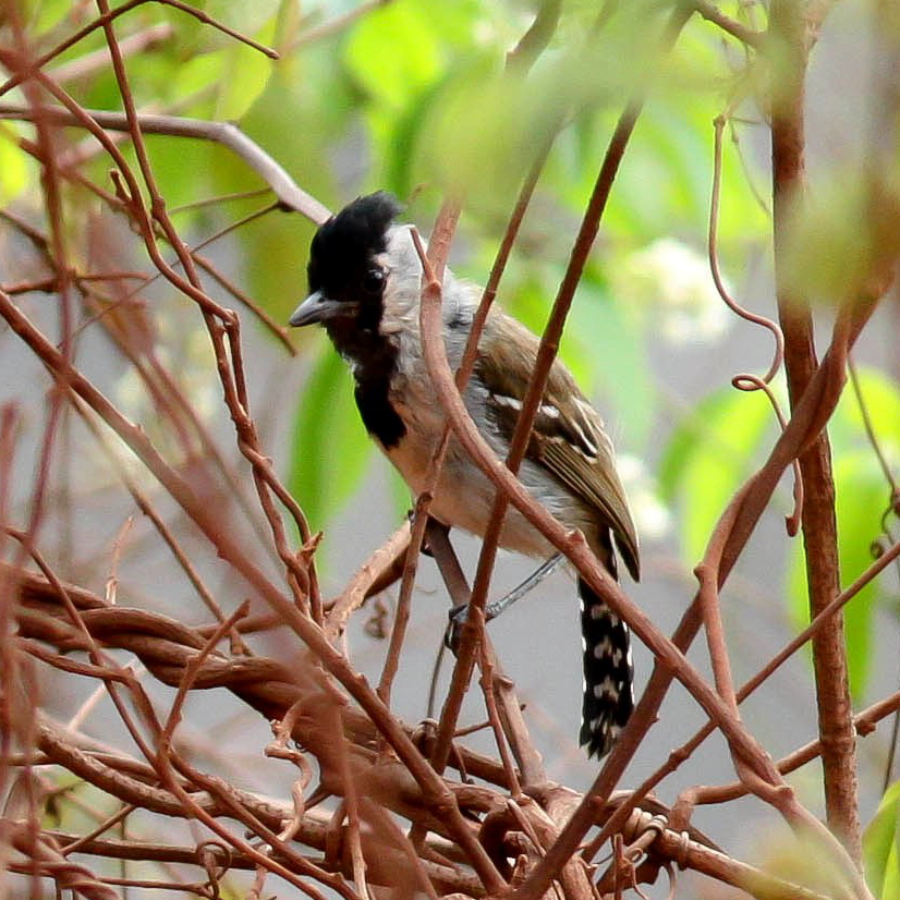 Silvery-cheeked Antshrike, Sakesphorus cristatus, (M)